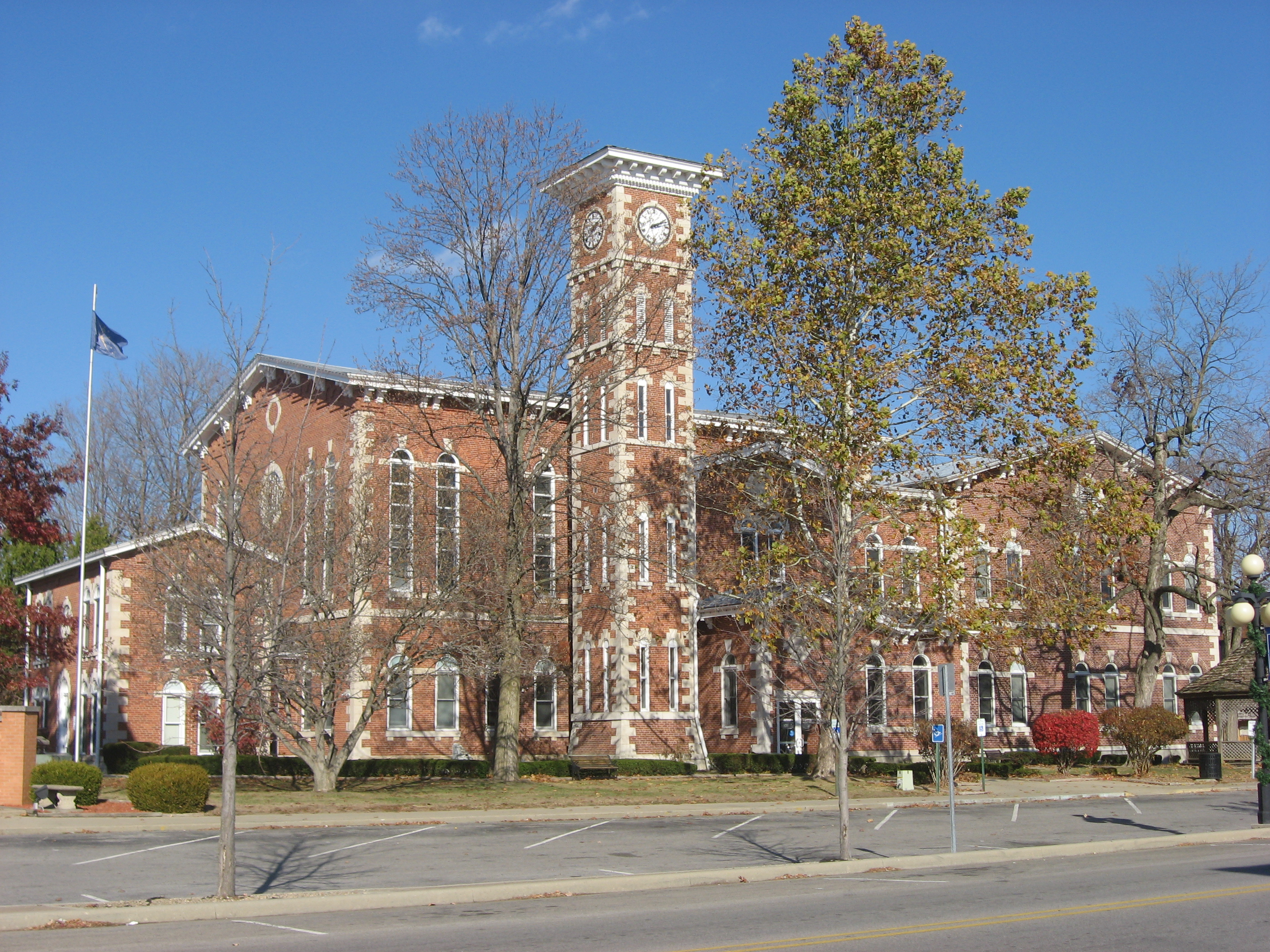 Front of the Morgan County Courthouse, located on Courthouse Square in downtown Martinsville, Indiana, United States. Built in 1859, it is listed on the National Register of Historic Places, and it is part of a Register-listed historic district, the Martinsville Commercial Historic District.